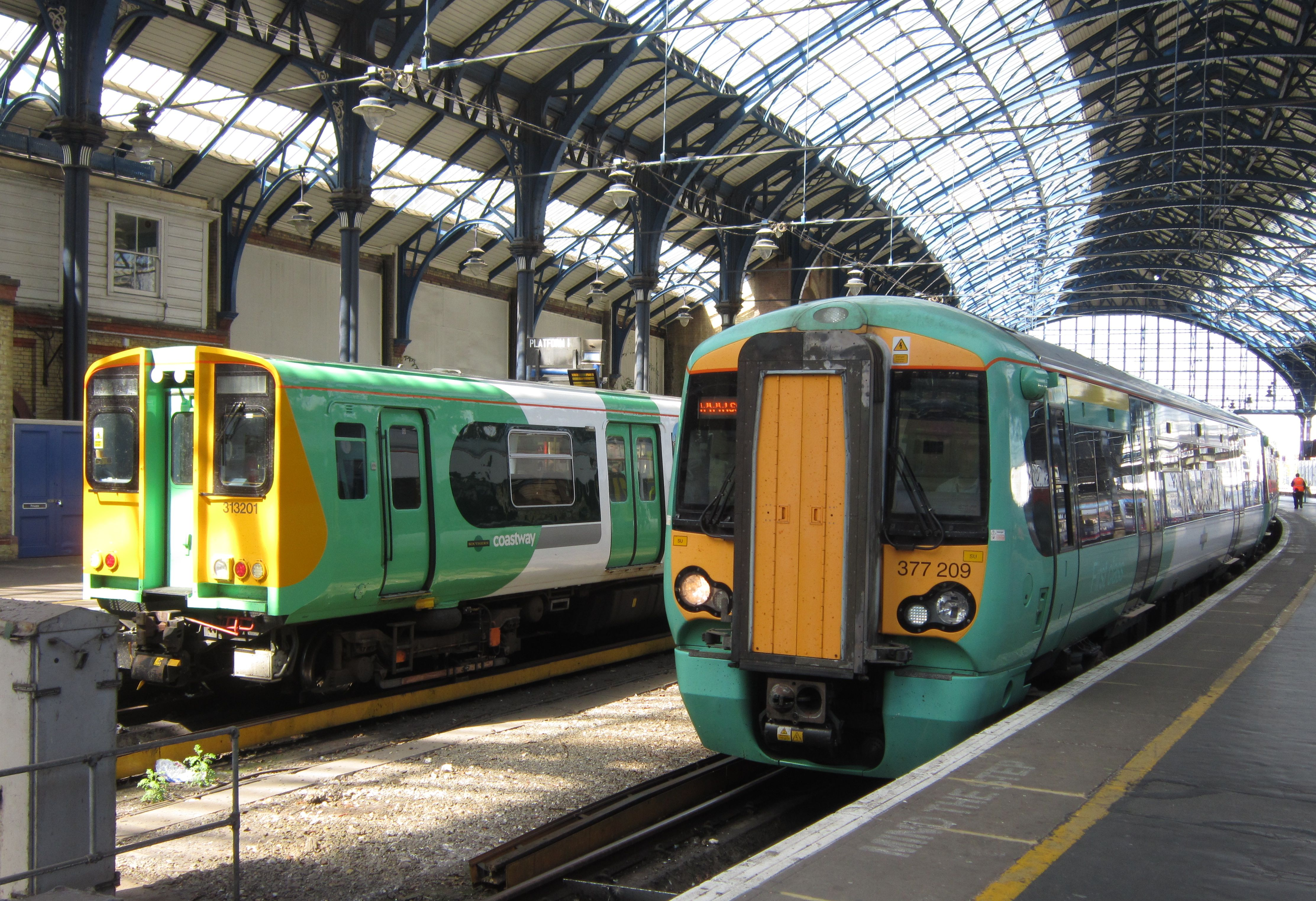 Southern trains 313201 and 377209 at Brighton railway station